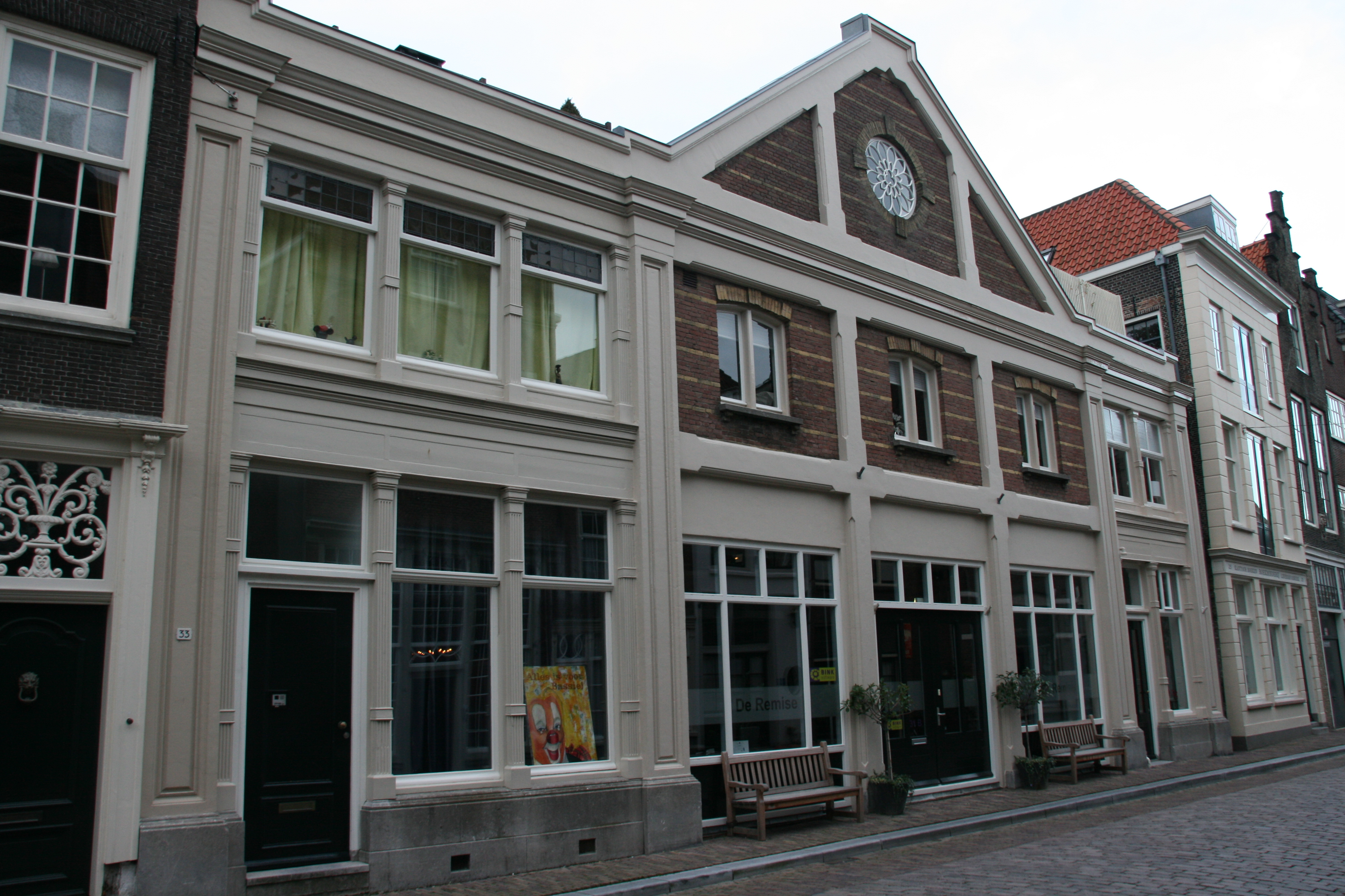 Warehouse of Jacob van Wageningen Ltd in Gotekerksbuurt at Dordrecht (Netherlands), built in 1882 by architect Huibert Willem Veth